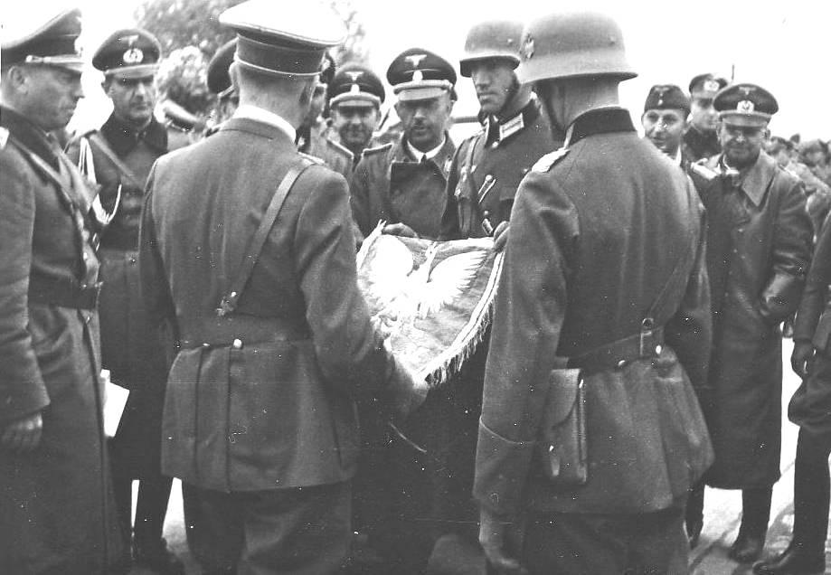 Himmler (behind flag) with Hitler (front left, back turned, holding flag) and Konrad Henlein (on the right) (Gauleiter Sudetenland) in Poland in September 1939